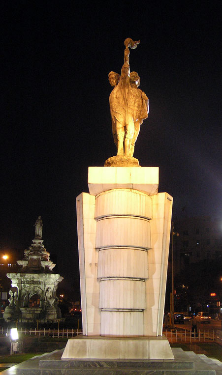 Hutatma Chowk in the night time